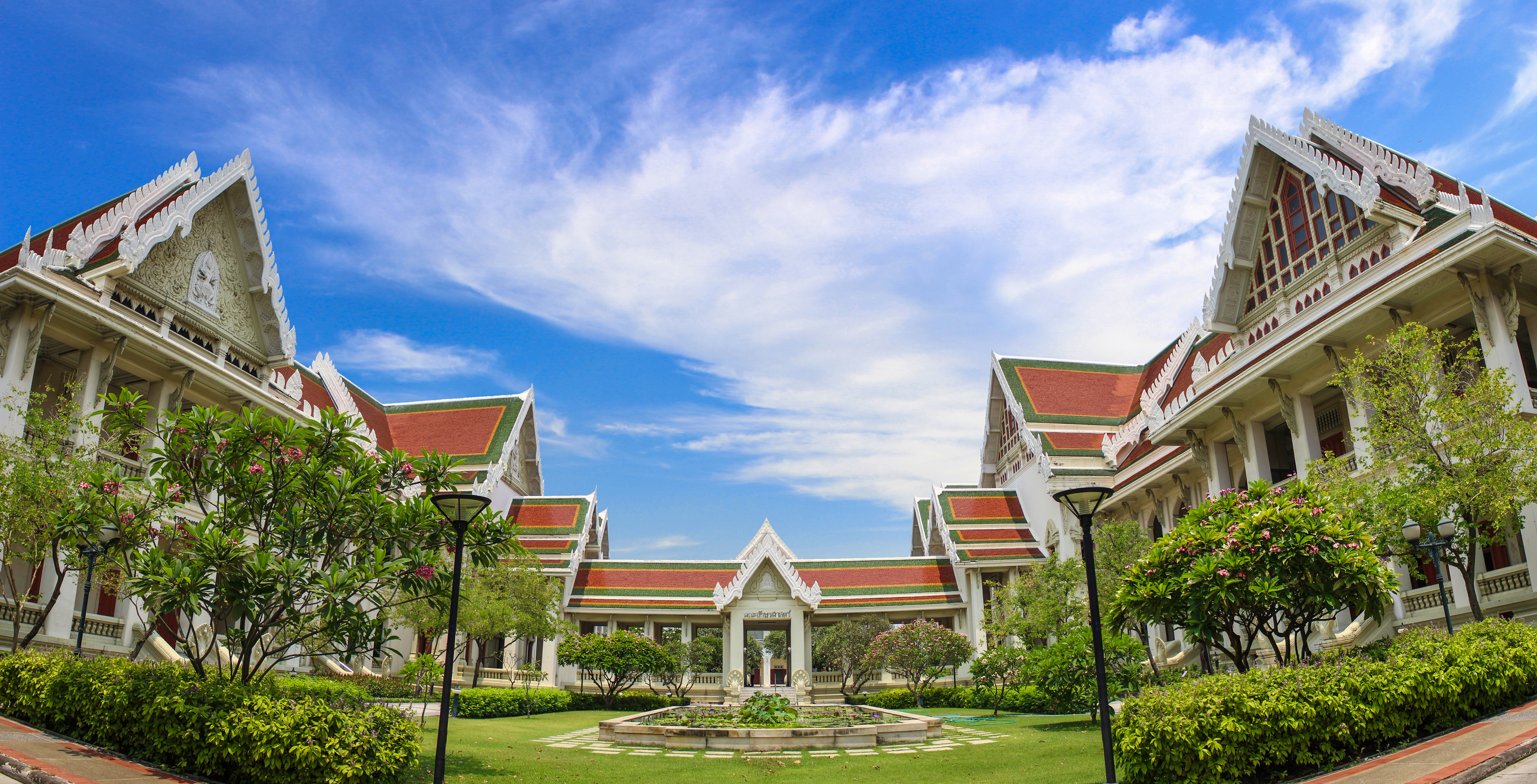 Faculty of Arts Buildings, Chulalongkorn University, Pathum Wan District, Bangkok